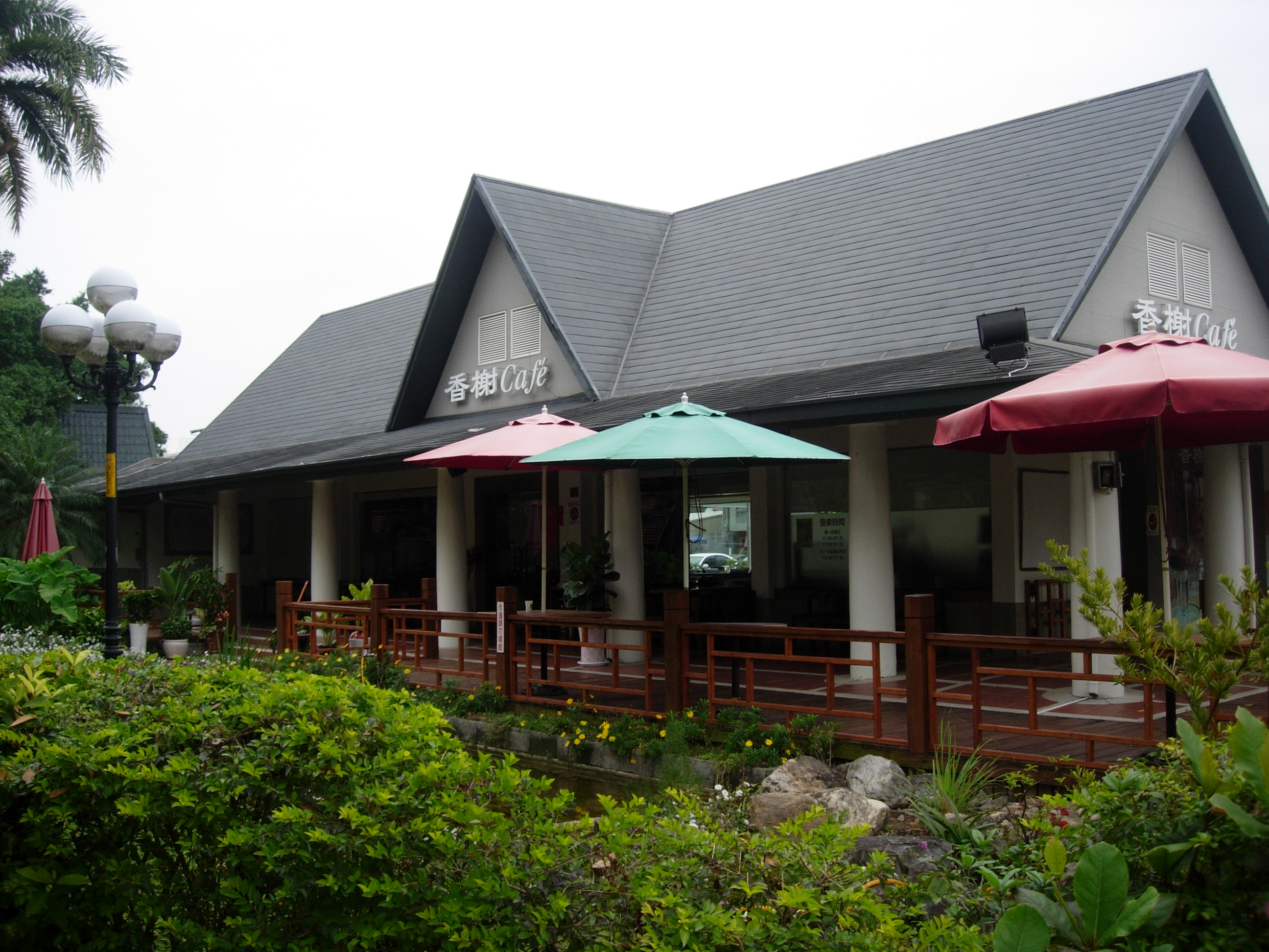 front of Jufang Hall of Nantou city